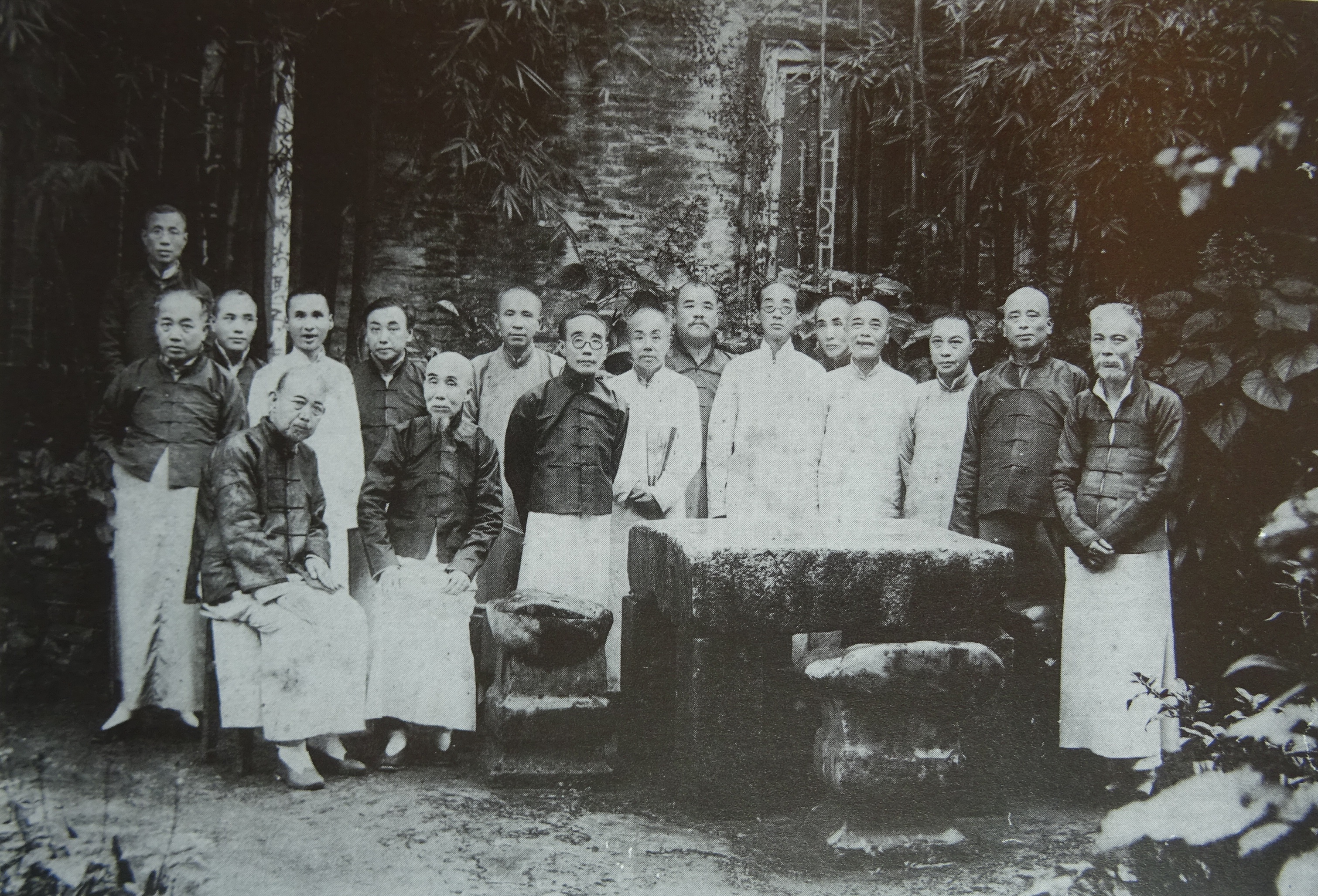 The group photo of Nam Yuen Poets' Club in Canton in 1922.